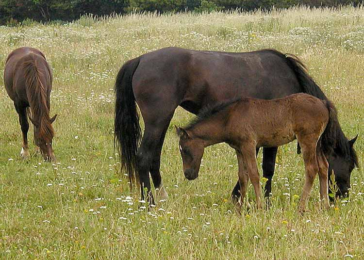 Horses grazing below the flight path into London (Heathrow) Airport, England. Taken by Adrian Pingstone in 2003 and placed in the public domain.